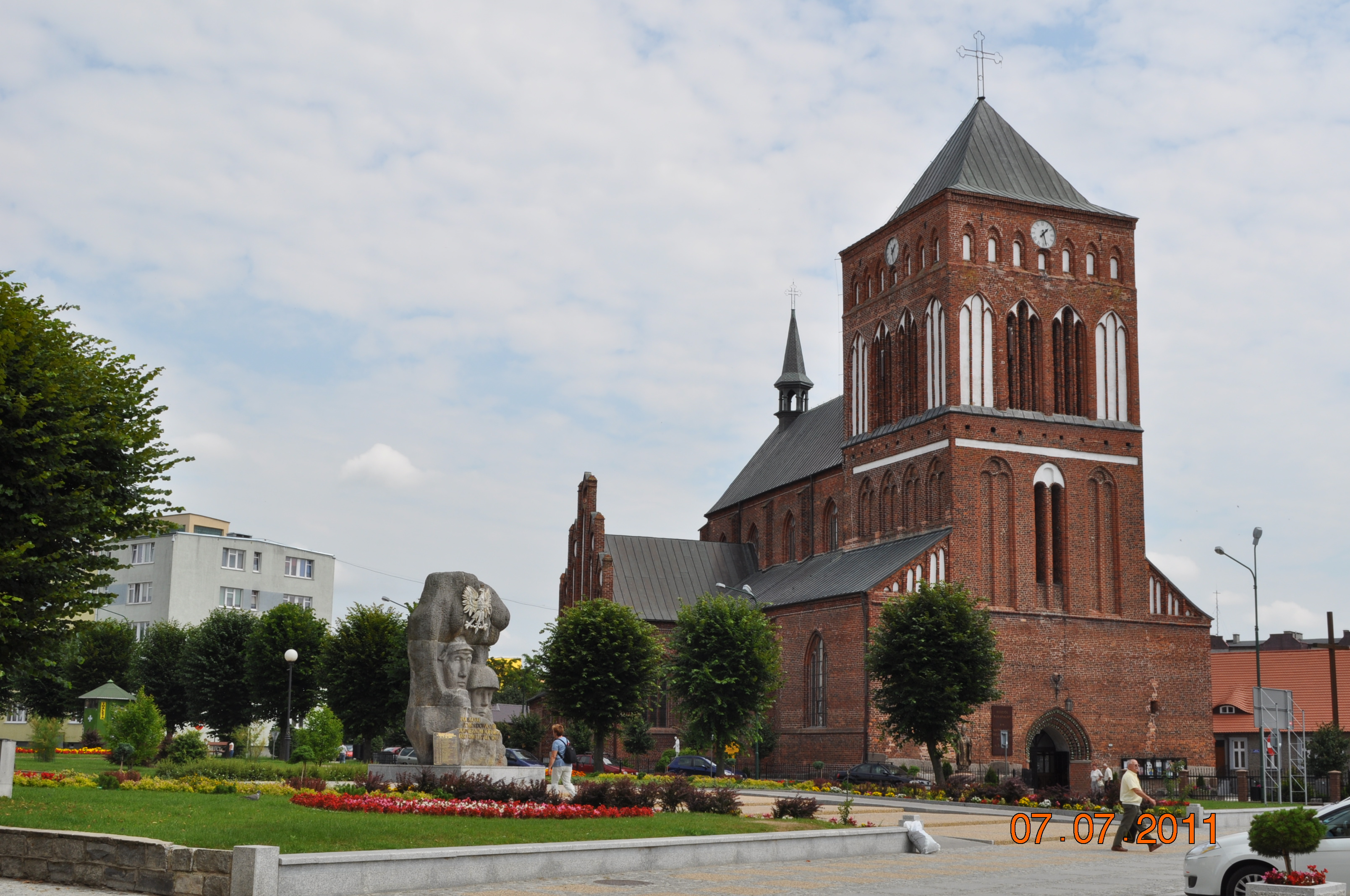 Our Lady of Perpetual Help church in Świdwin, Poland